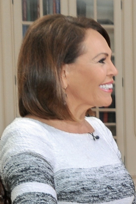 María Elena Salinas